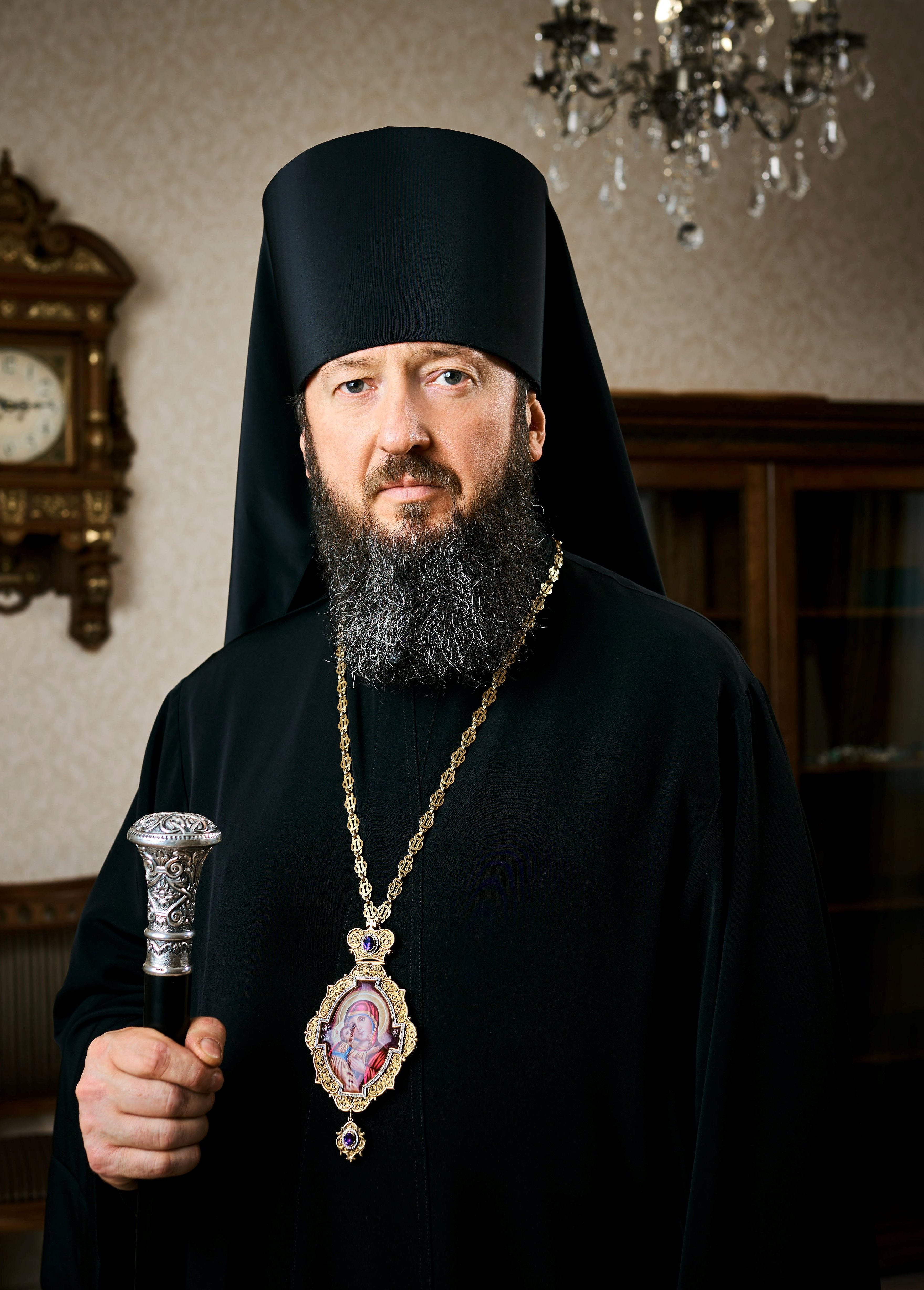 Bishop